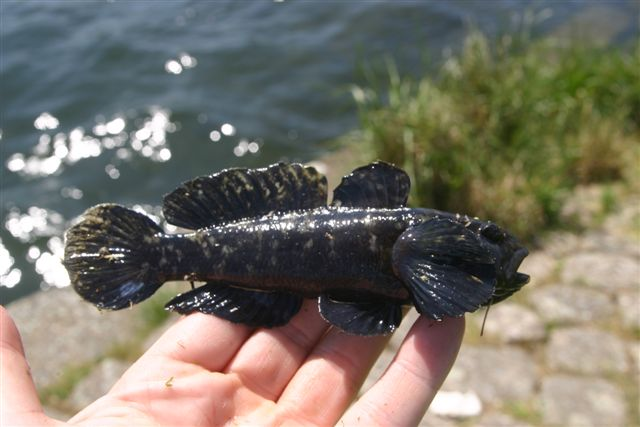 Neogobius melanoslomus